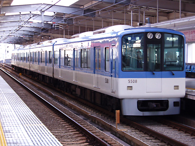 Hanshin Railway 5500series Electric Car 阪神電気鉄道 5500系電車